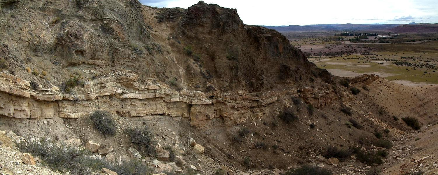 Cañadón Asfalto fm. (Upper Jurassic) near Cerro Cóndor, Chubut, Argentina.